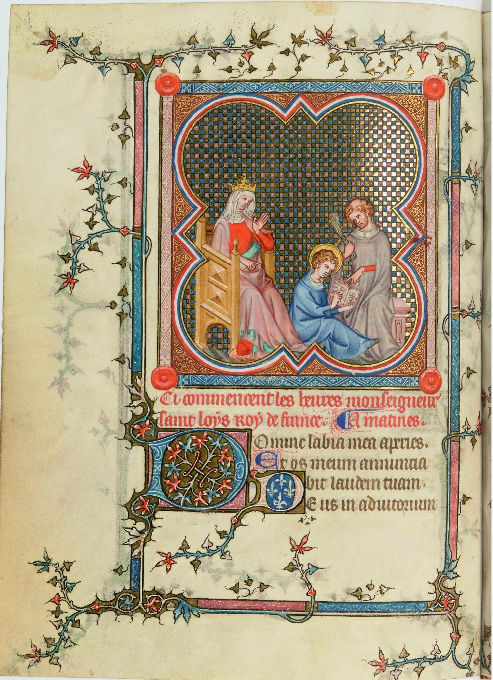 Jean Le Noir Miniature from Hours of Jeanne de Navarre. 1336-40 Paris, Bibliotheque nationale de France.